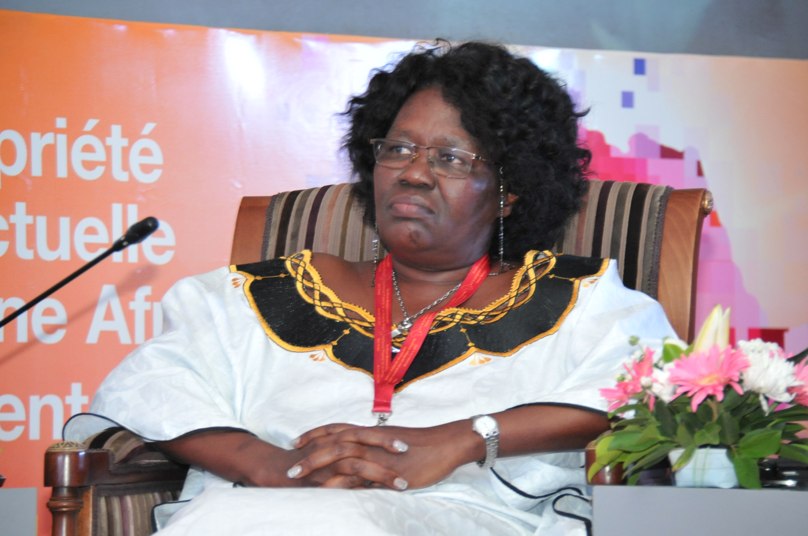 Catherine A. Odora-Hoppers, an internationally recognized scholar and Professor at the University of South Africa, took part in a high level segment on "Africa in a Knowledge-Based Economy-Challenges and Opportunities" organized in the context of the African Ministerial Conference 2015: Intellectual Property for an Emerging Africa, which met from November 3 – 5, 2015 in Dakar, Senegal. Copyright: WIPO. Photo: Cheikh Saya Diop. This work is licensed under a Creative Commons Attribution-ShareAlike 3.0 IGO License.